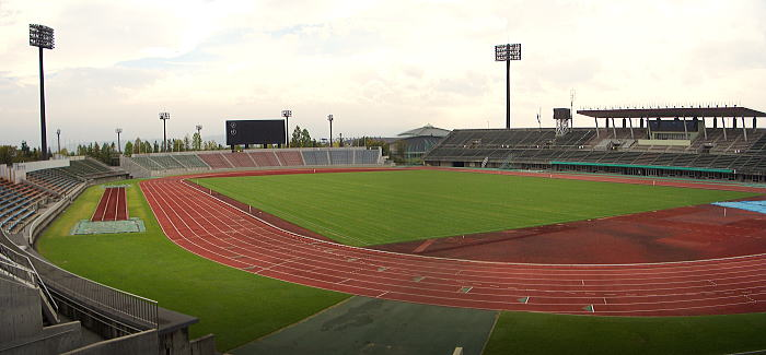 Kose Sportspark Mainstaidum. Kohu-city,Yamanashi-pref,Japan.